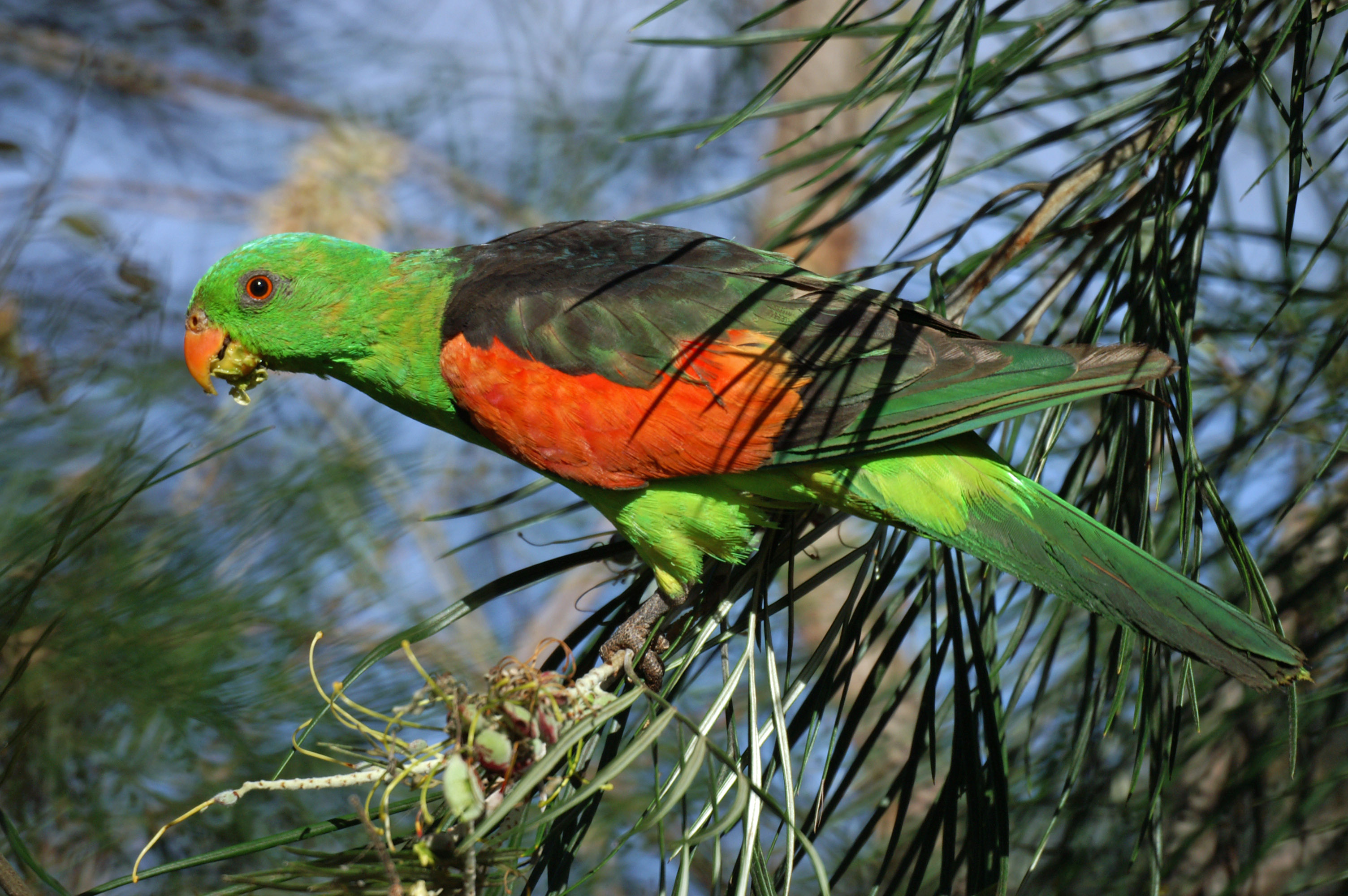 A male Red-winged Parrot at the Mareeba Wetlands, QLD, Australia.